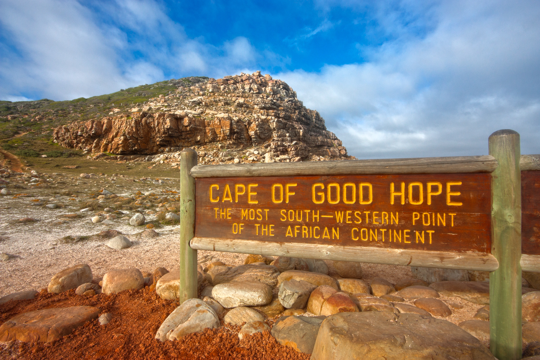 Cape of Good Hope, South Africa (near Cape Town). HDR composite from multiple exposures.